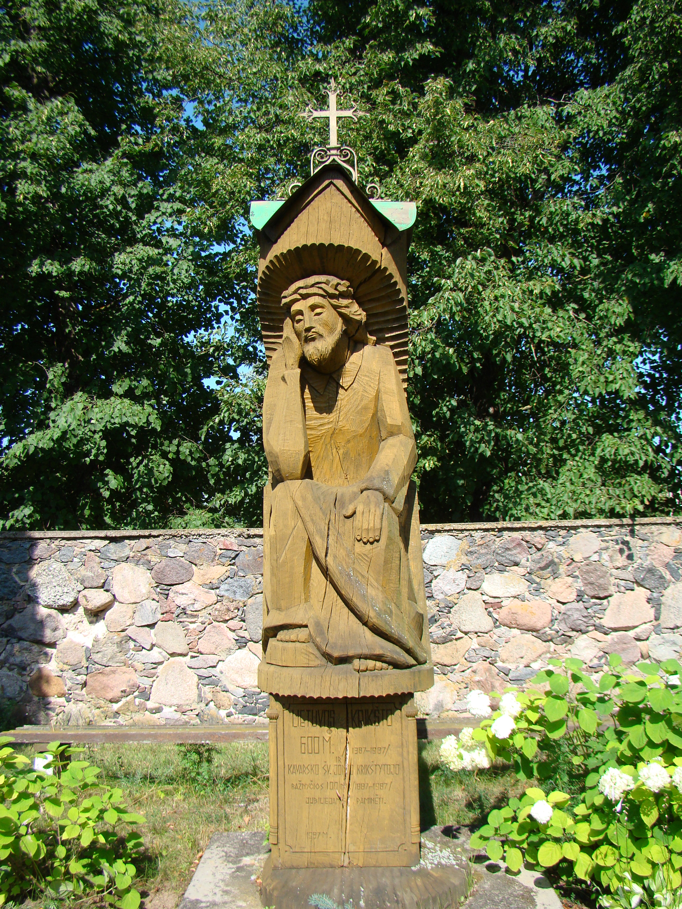 Kavarskas, Anykščiai district, Lithuania